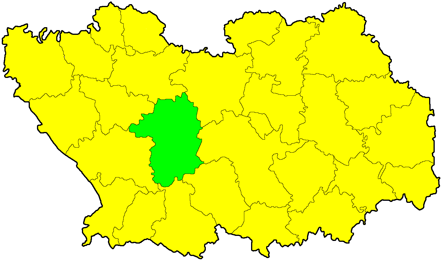 Penzenskaya oblast Kamensky rayon